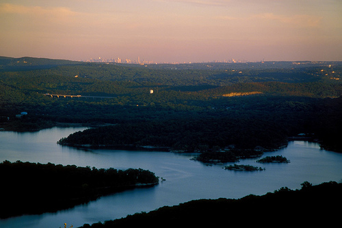 New York City skyline, as seen from West Milford, New Jersey